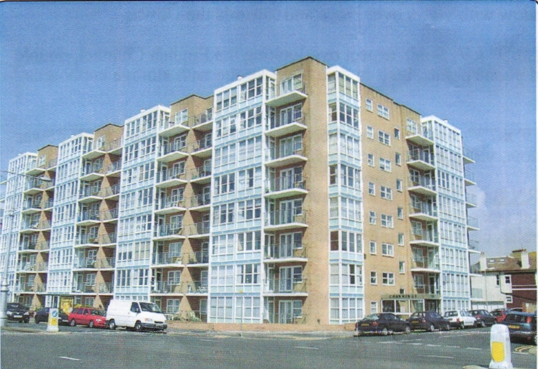 Channings, Hove. Picture of a typical recent apartment block in the Aldrington area of Hove.